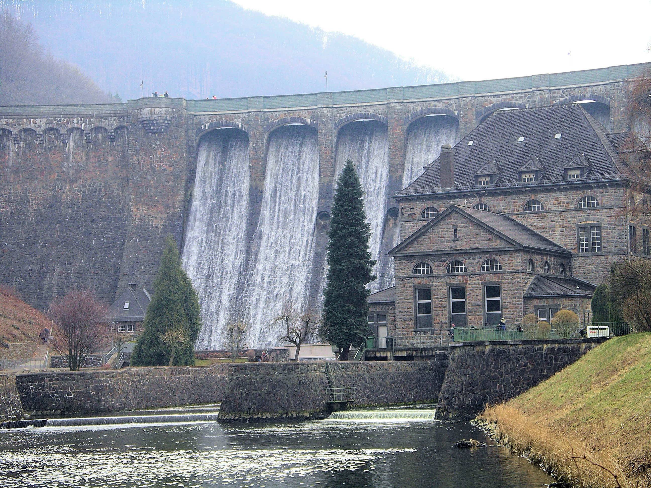 Spillway of the Diemel Dam («Diemeltalsperre») in Marsberg (North Rhine-Westphalia, Germany)